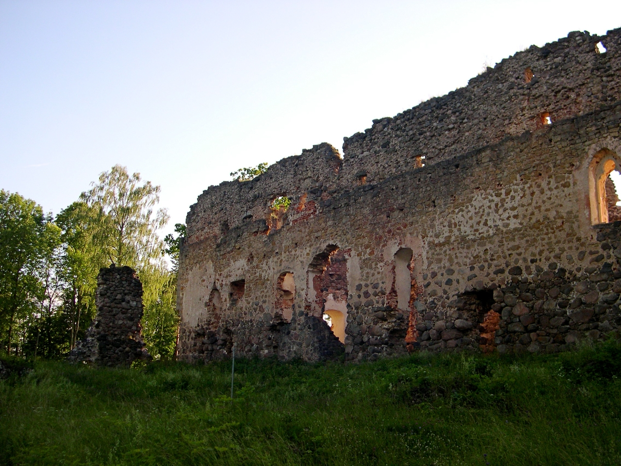 Picture of Rauna Castle